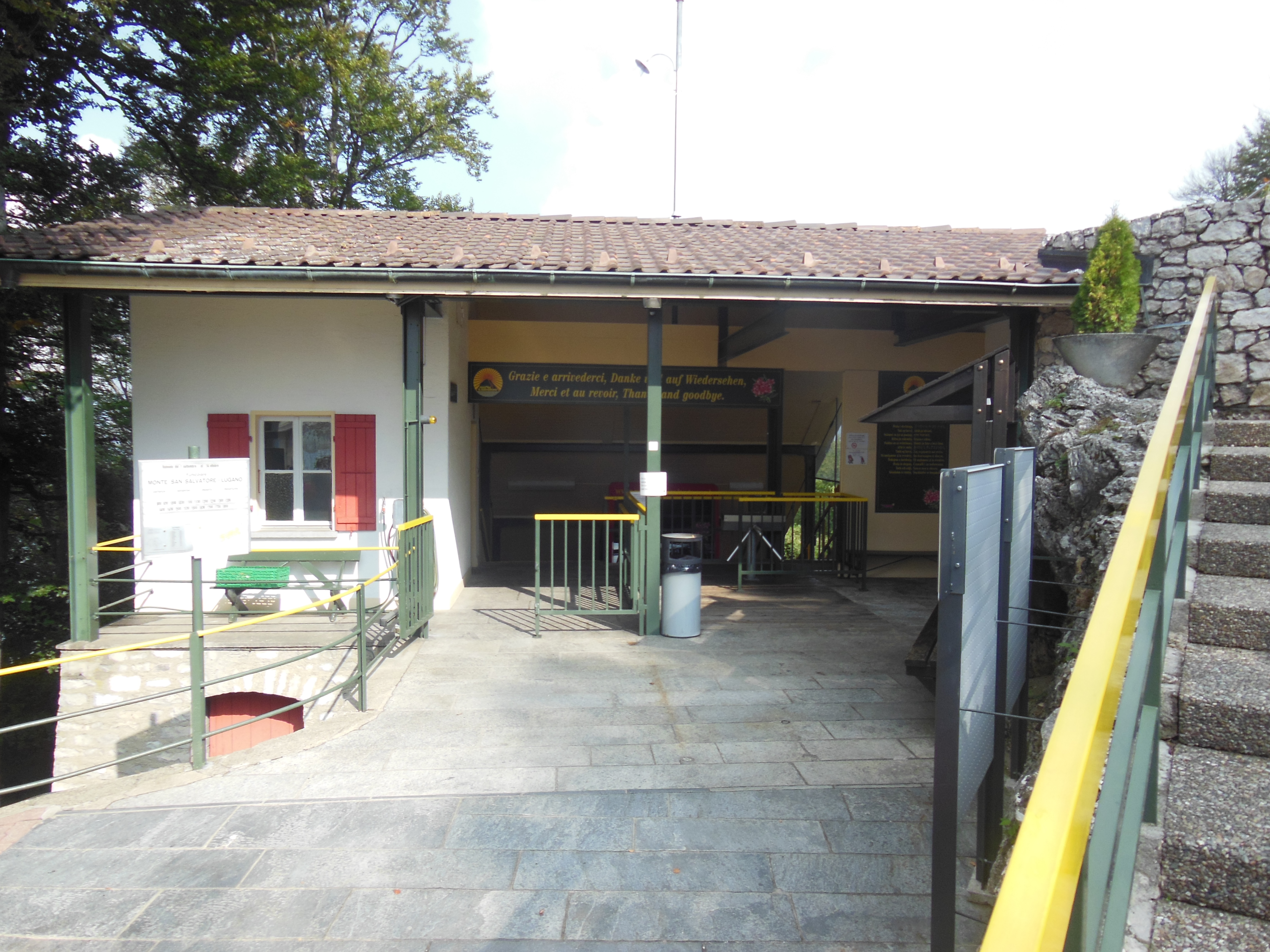 Upper station of Monte San Salvatore funicular. For more information see the wikipedia article Monte San Salvatore funicular.